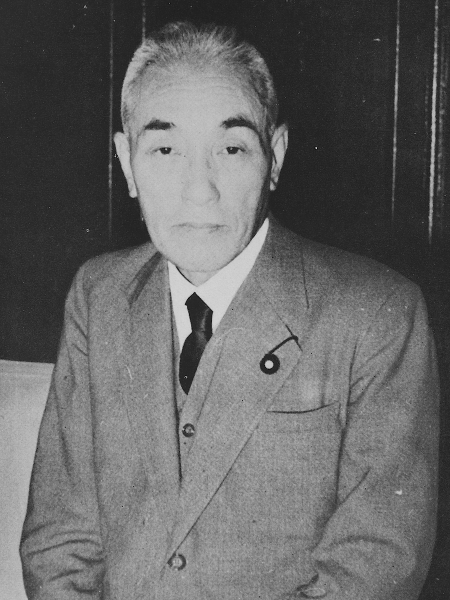 Portrait of Odachi Shigeo (大達茂雄, 1892 – 1955)